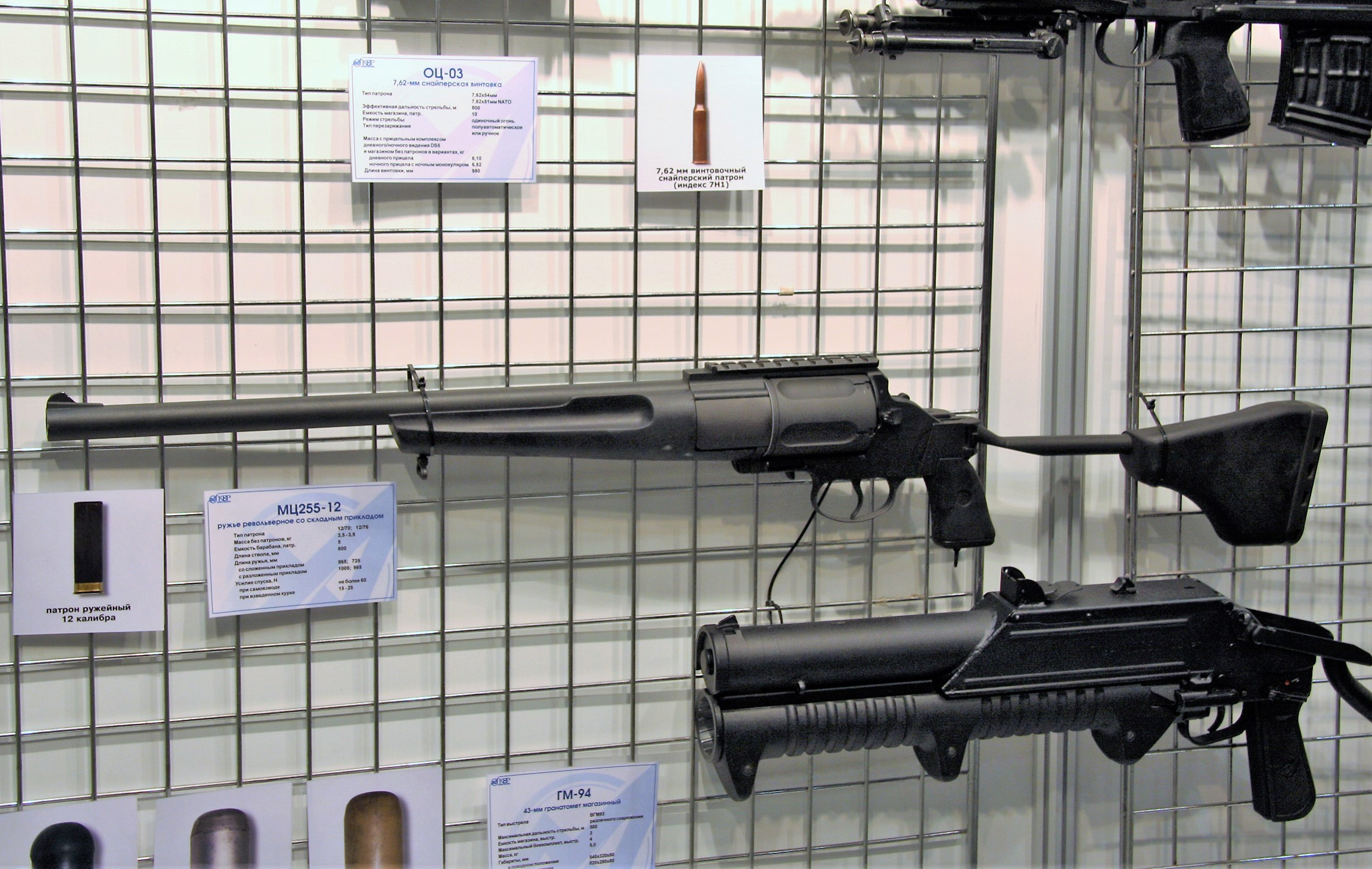 MTs-255-12 - Interpolitex-2009